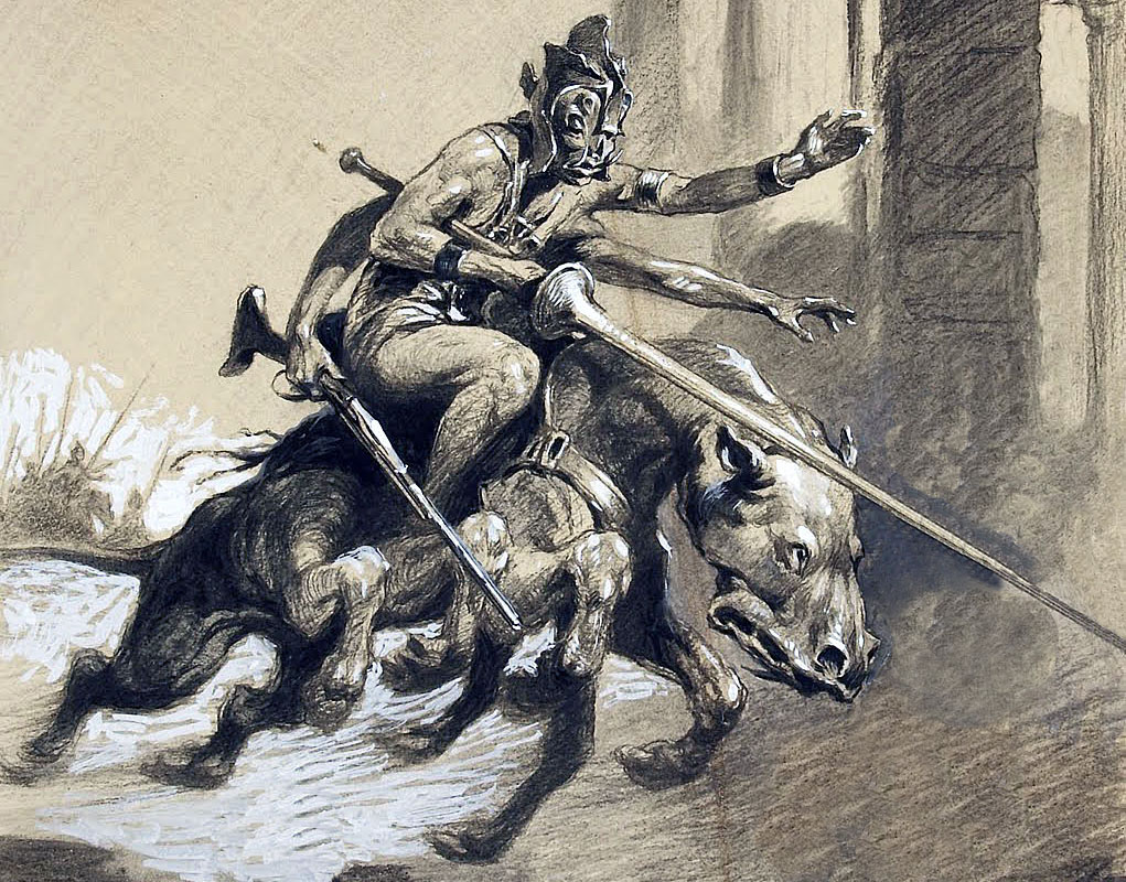 Green martian on his thoat. Extract from an art by James Allen St. John from Thuvia, Maid of Mars by Edgar Rice Burroughs, McClurg, 1920.